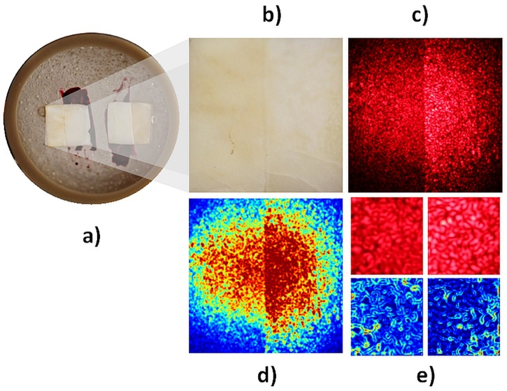 speckle